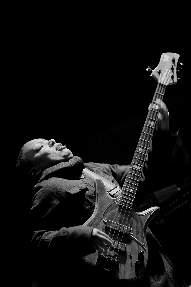 Meshell Ndegeocello performing in Leuven, Belgium - 2007